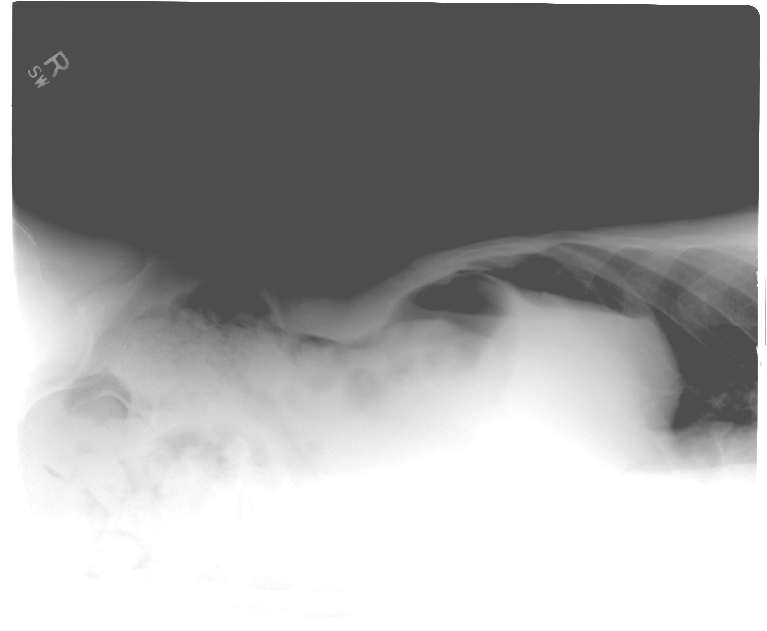 a classic for your consideration